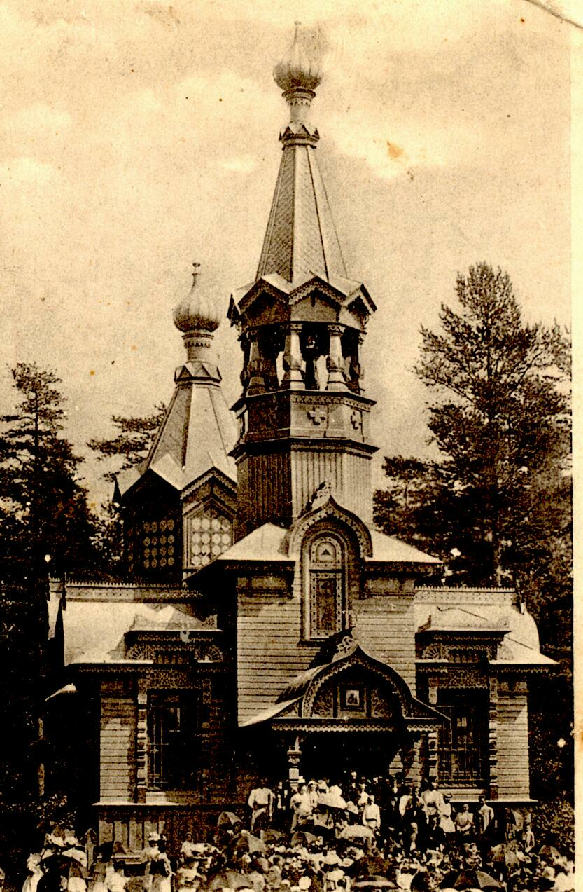 Zelenogorsk (Russia)